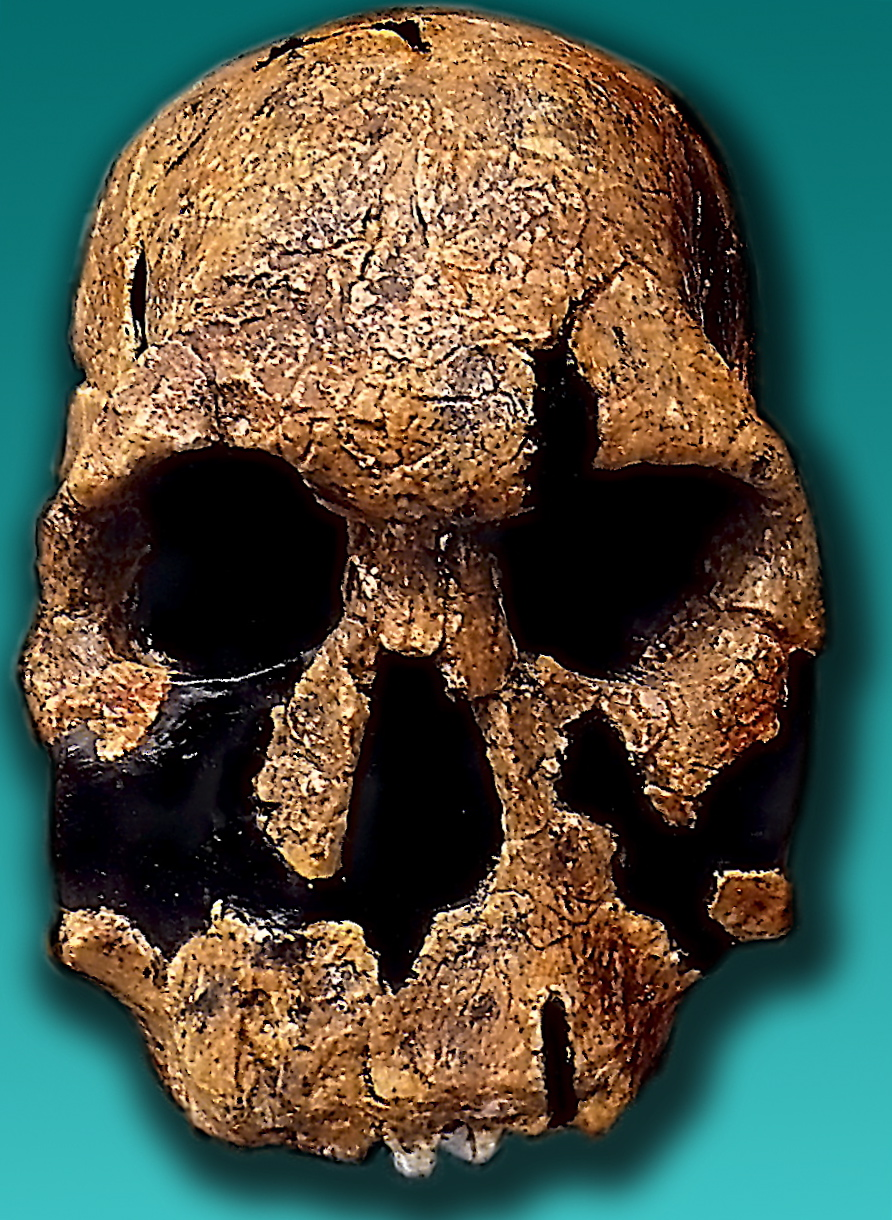 Cranium of Homo rudolfensis signed as KNM ER 1470, discovered in Koobi Fora (Kenya) by Bernard Ngeneo (replica)